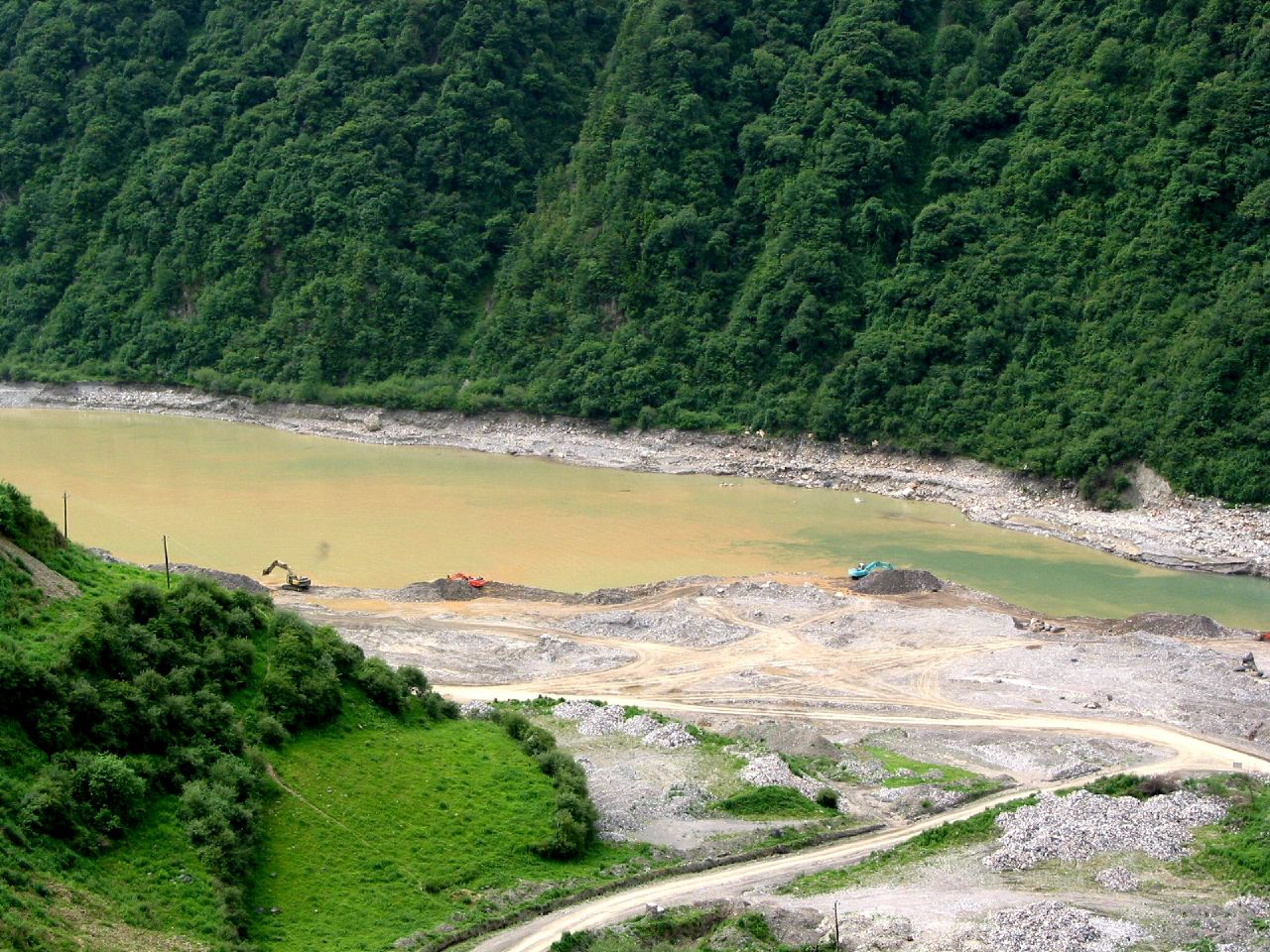 The following is the author's description of the photograph quoted directly from the photograph's Flickr page. "building the dam near Wanglang nature reserve. "